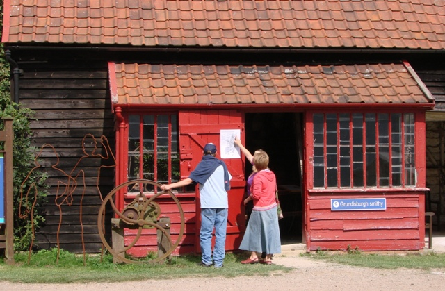 Grundisburgh Smithy, Museum of East Anglian Rural Life This 18th century working smithy was originally sited at Grundisburgh, near Woodbridge, and relocated to the museum in 1972.